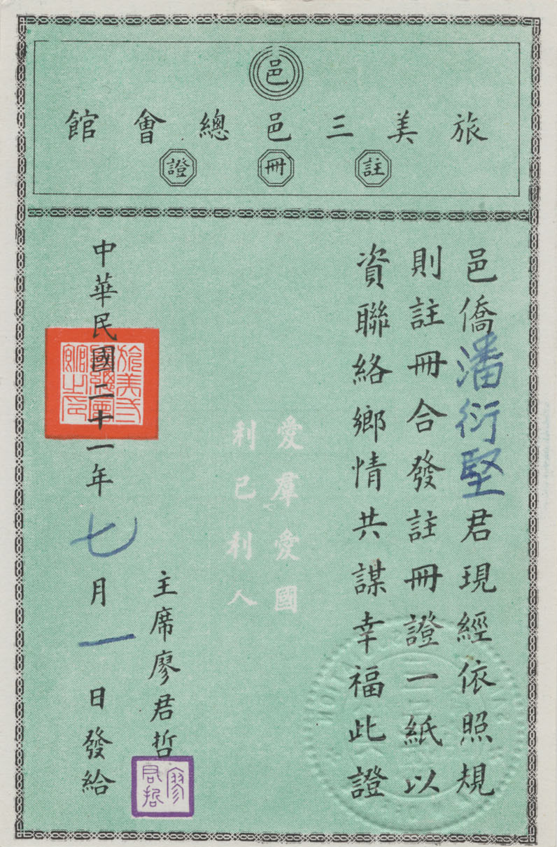 Membership card of Poon Yin Kin (Backside)